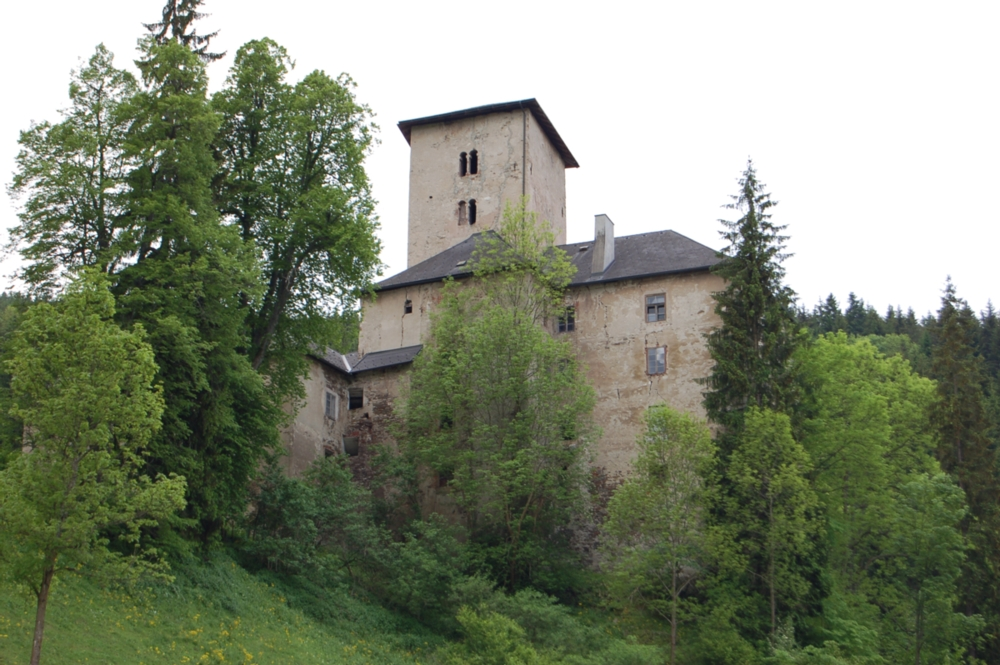 Waldenstein Castle from the foot of Schlossberg hill).